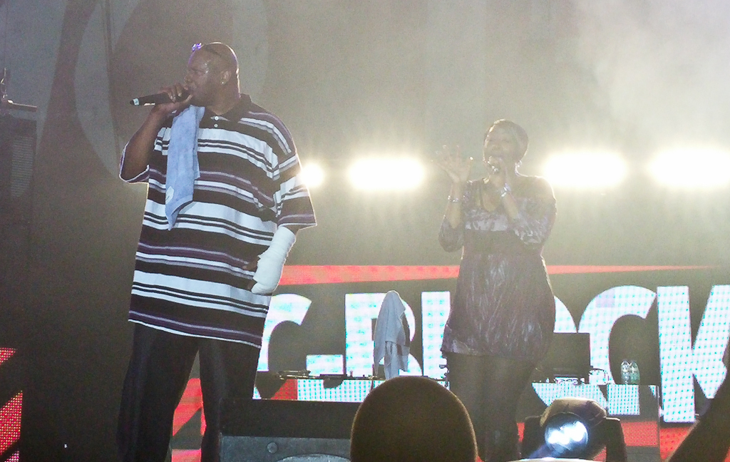 C-Block live,Winter palace, Sofia, Bulgaria